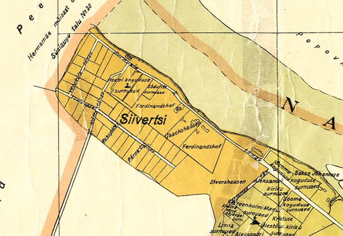 Old map of Siivertsi, Narva, Estonia (1929)